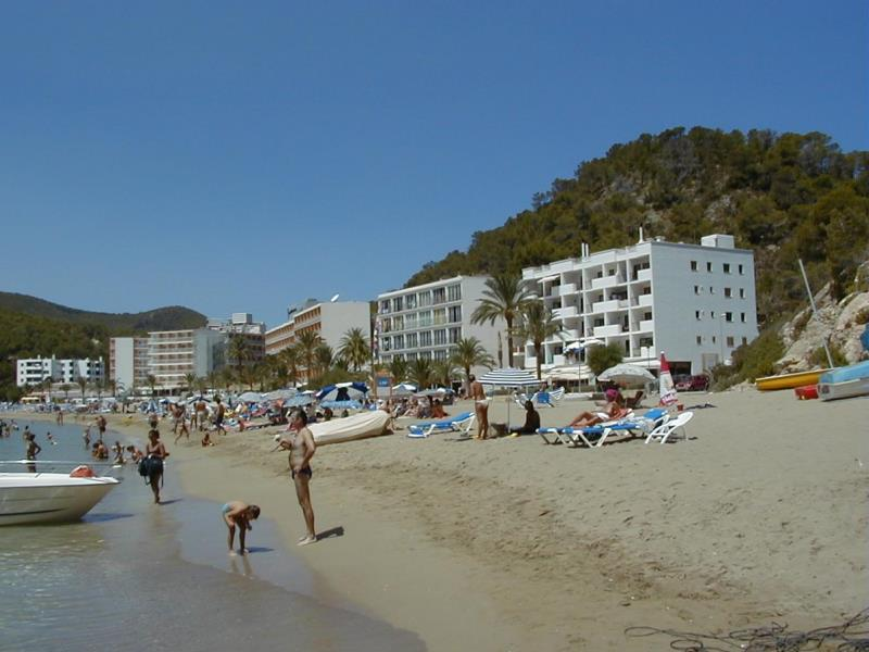 Hotels in Cala de Sant Vincent, Eivissa (Ibiza), Spain